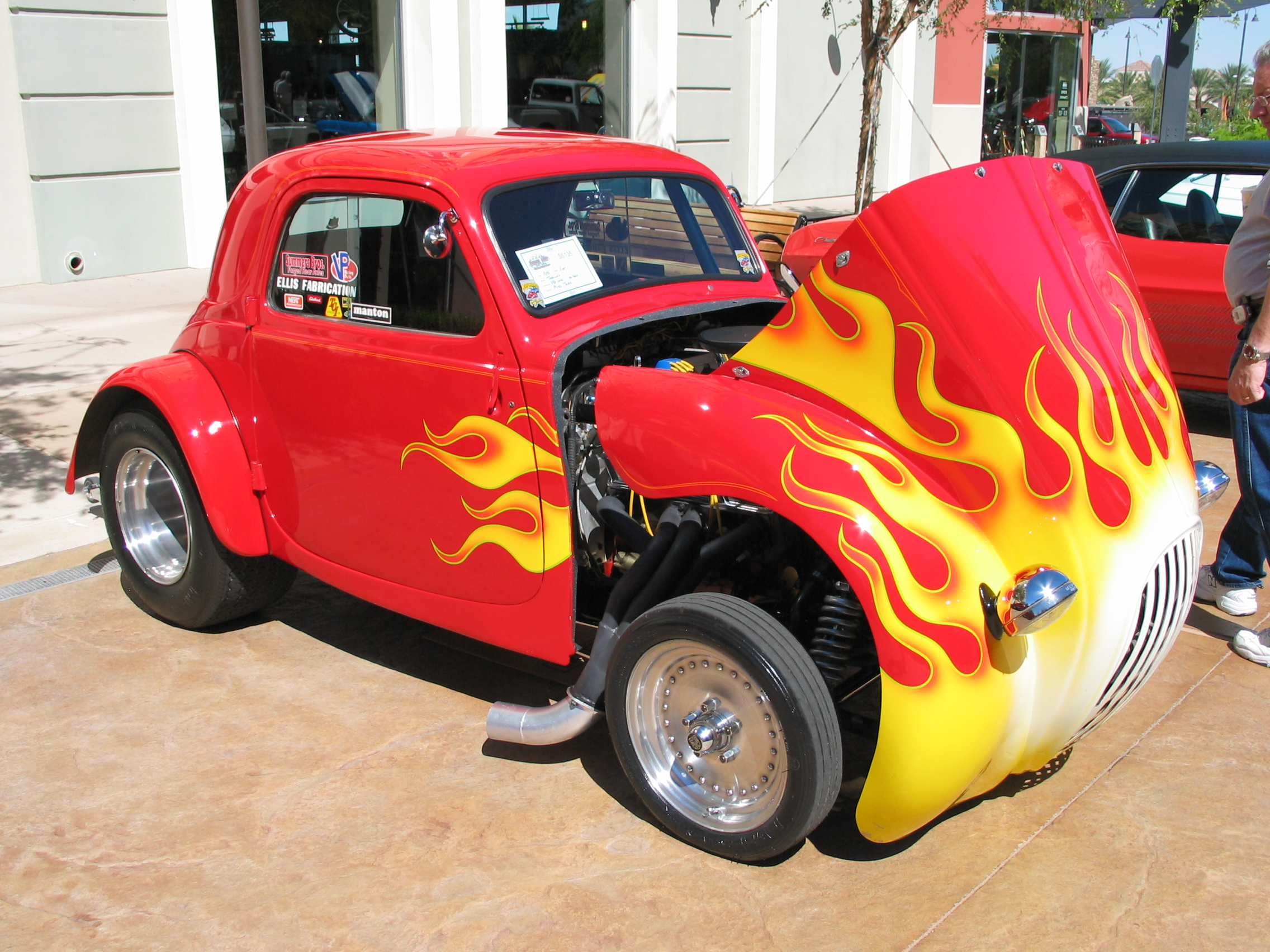 Fiat Topolino hot rod